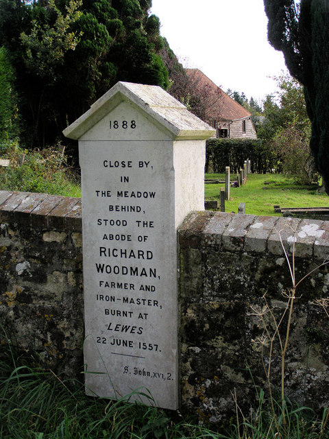 Protestant Martyrs Memorial, St Mary's Church, Warbleton for Richard Woolman